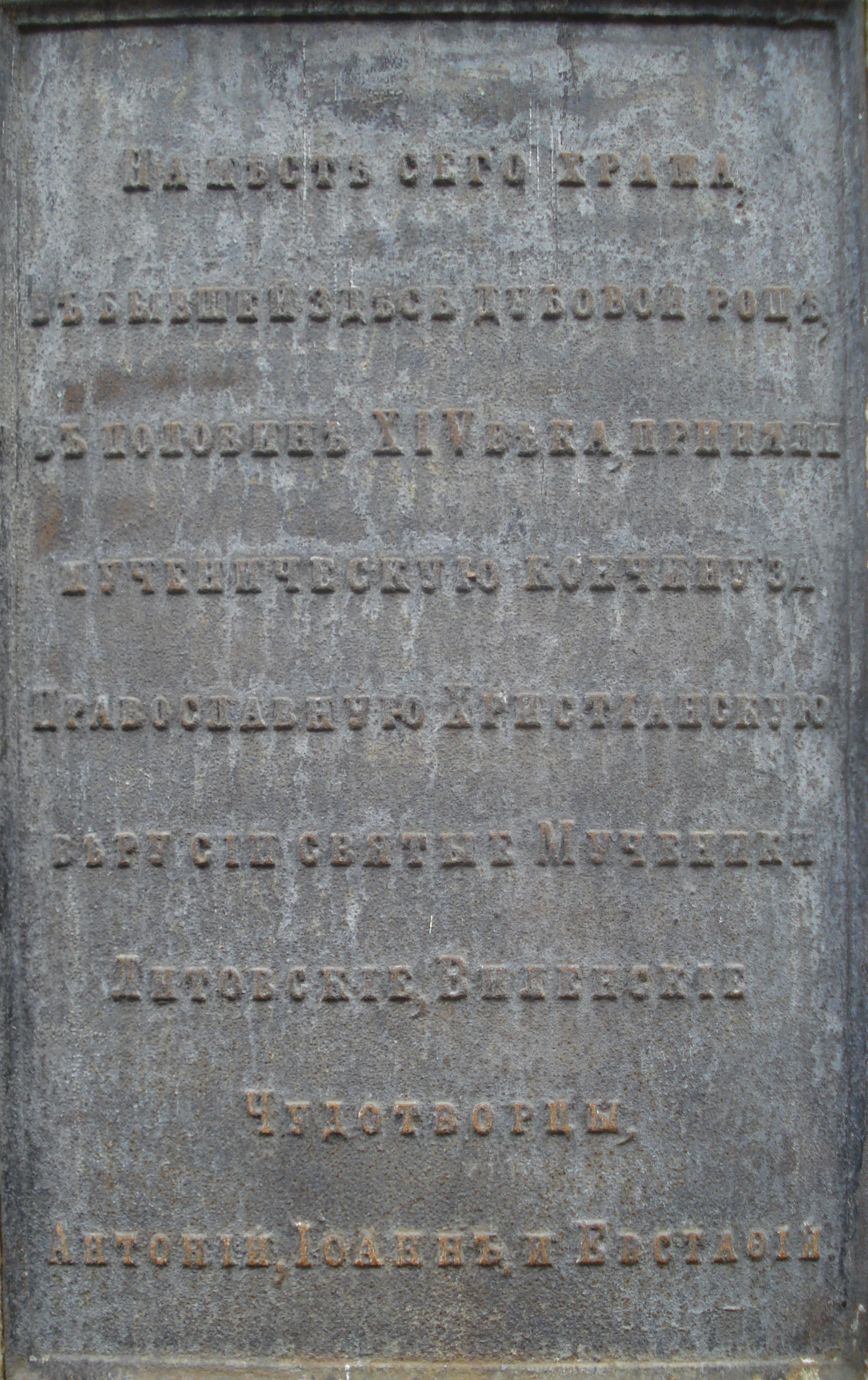 Plaque in memory of Three Lithuanian Martyrs (Anthony, John, and Eustathius of Vilnius) on the main fasade of Greek Catholic Church of Holy Trinity in Vilnius